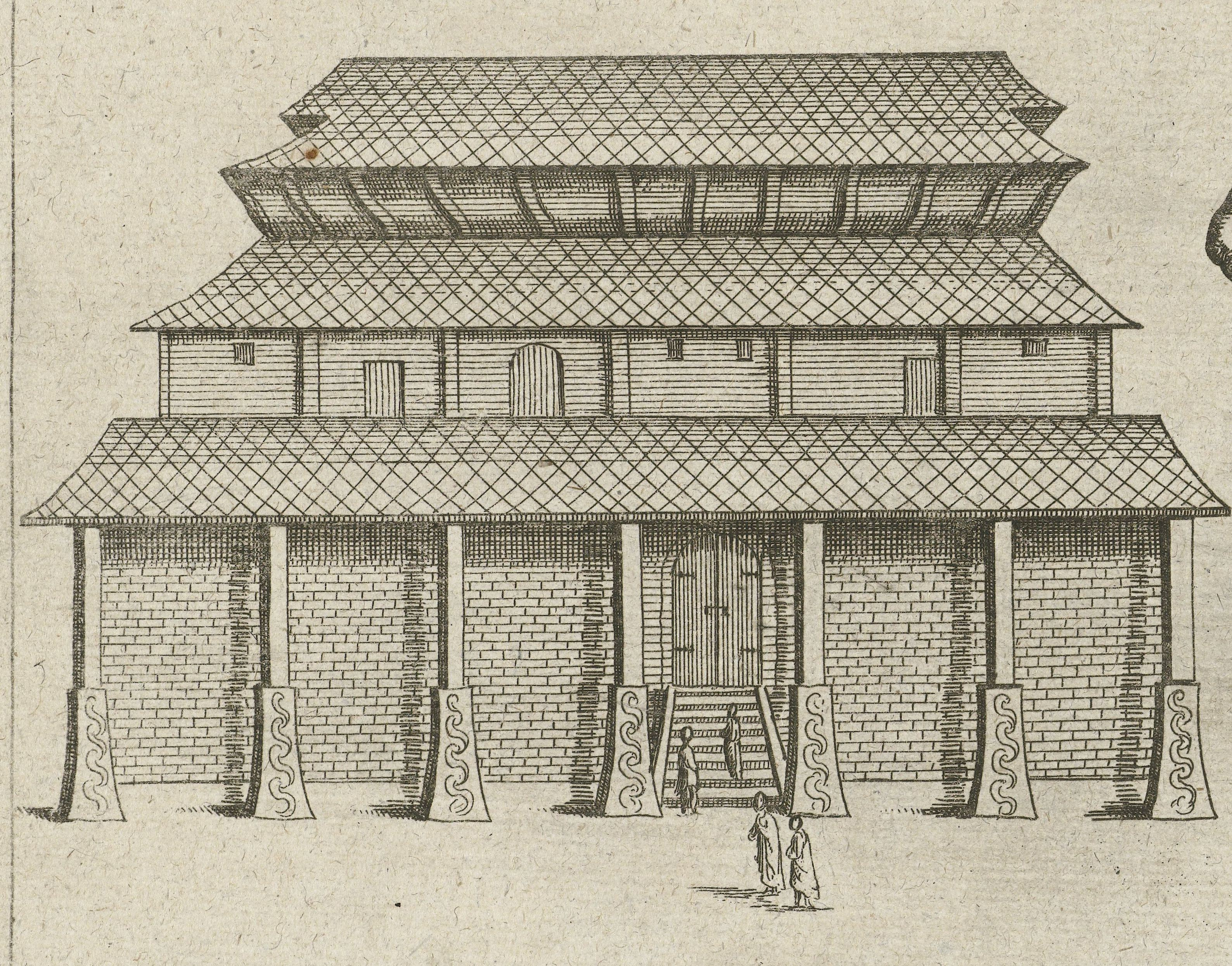 The Palace of the Zamorin of Calicut, 1604 by Nederlandsche Oost-Indische Compagnie